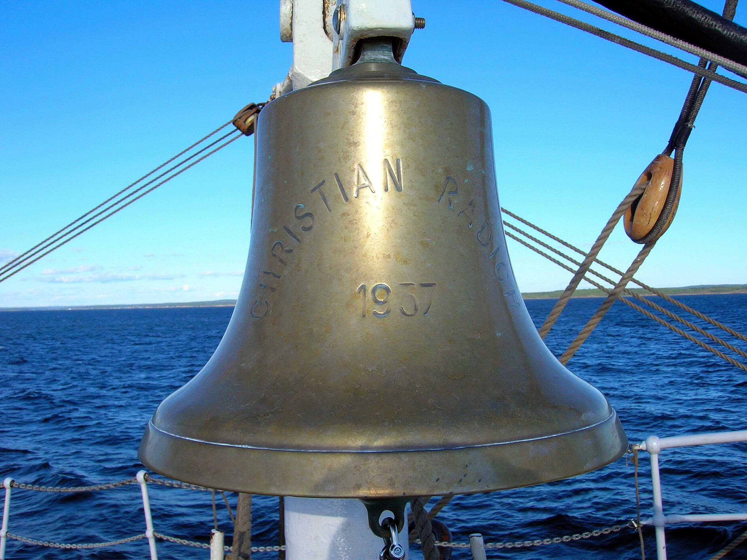 The jingle of the sailing ship Christian Radich.